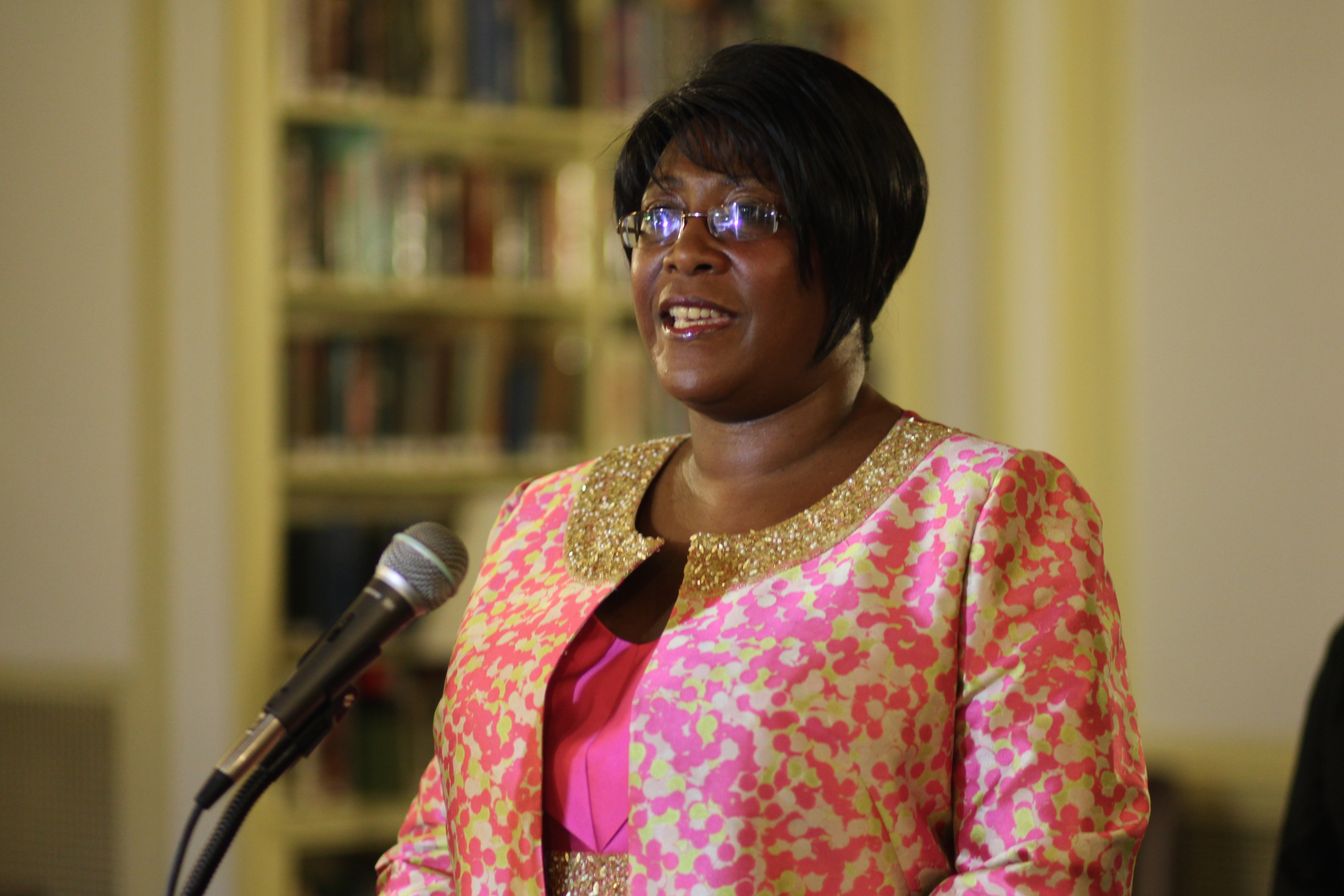 Dr Christine Kaseba-Sata, First Lady of Zambia At a special ceremony following the 10th Meeting of the Broadband Commission for Digital Development, H.E. Dr Christine Kaseba-Sata was inaugurated as ITU's Special Envoy for e-Health. Photo taken in New York City on September 21, 2014.